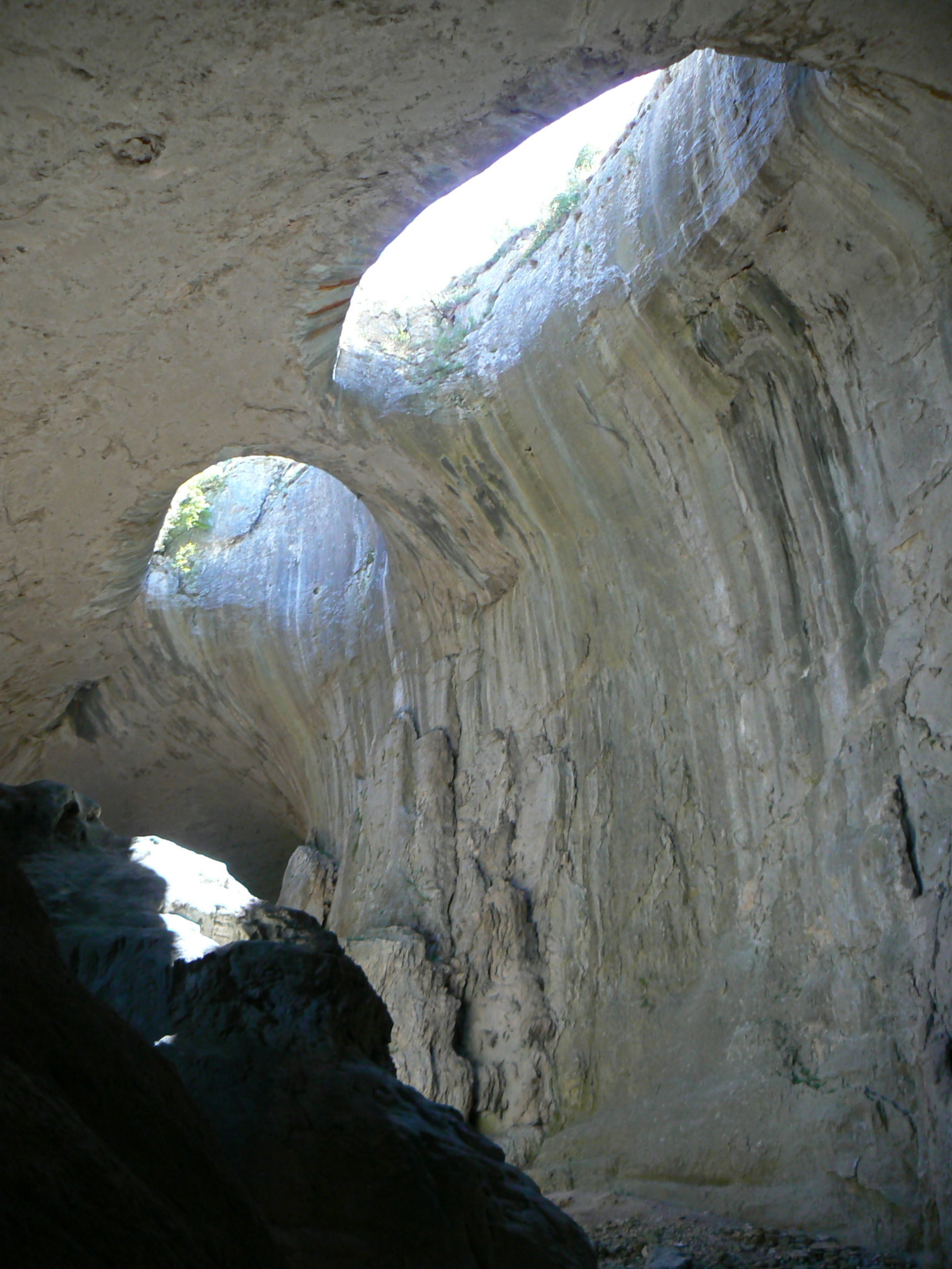 Prohodna Cave, near village Karlukovo, Bulgaria. View from the right towards God's Eyes (naturally formed holes in the cave's ceiling with the exact shape of eyes)